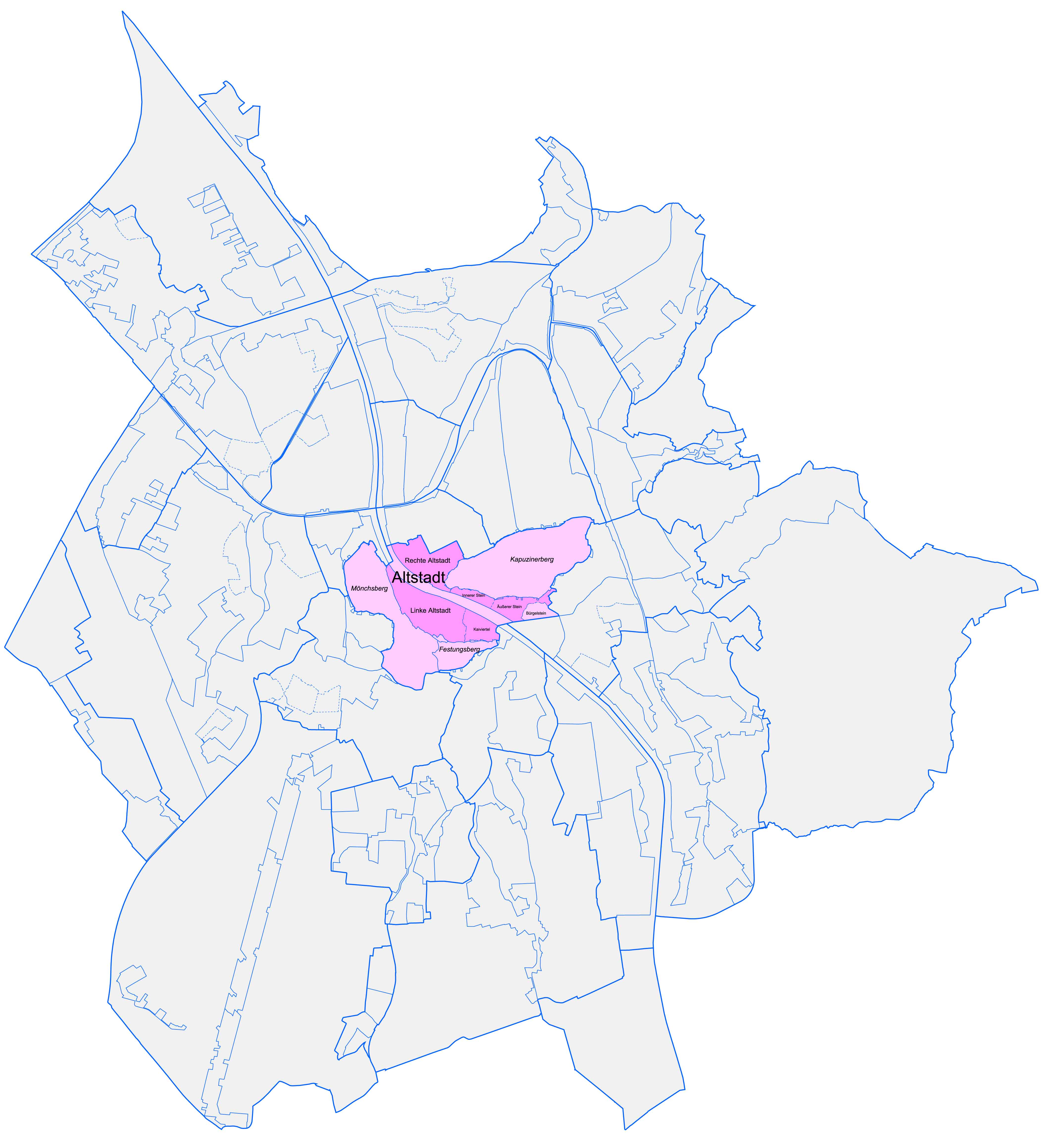 a quarter of Salzburg: the old city